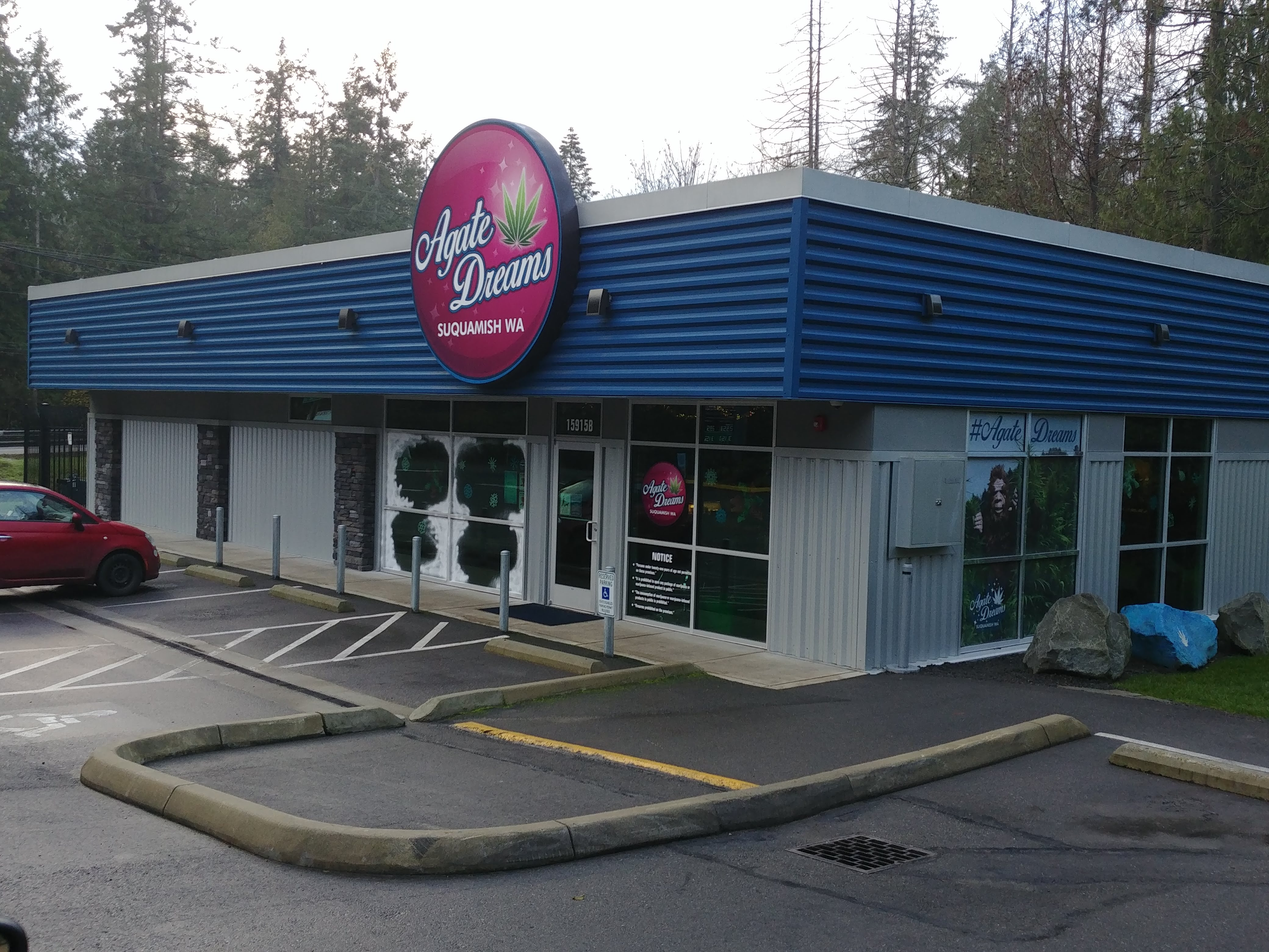 Agate Dreams cannabis retail establishment in Suquamish, Washington. Is on the Indian reservation across the street from Clearwater Casino near Agate Pass Bridge.